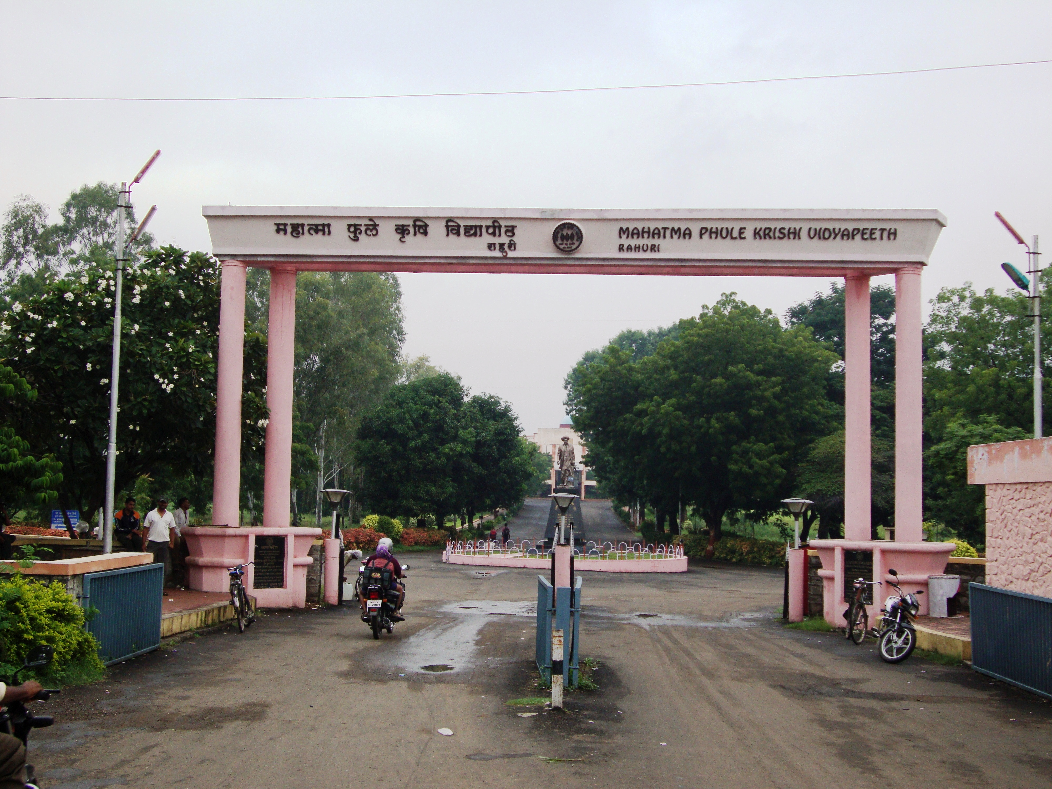 Mahatma Phule Krishi Vidyapeeth Main Entrance on Nagar Manmad Road